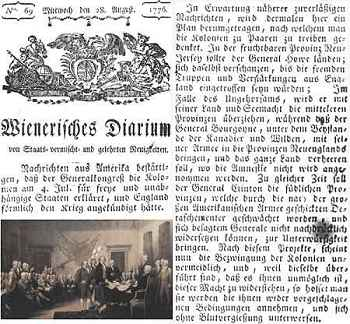 Wiennerisches Diarium A.D. 1776 about the Declaration of Liberty